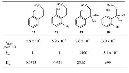 guedes.3